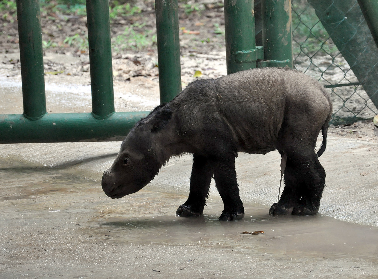 At 12:40 am on Saturday, June 23rd, Ratu, one of the three adult female rhinos at Indonesia’s Sumatran Rhino Sanctuary, gave birth to a male calf. Not only was this Ratu’s first baby, but it was the first Sumatran rhino ever born in captivity in Indonesia and only the fifth ever born in captivity worldwide